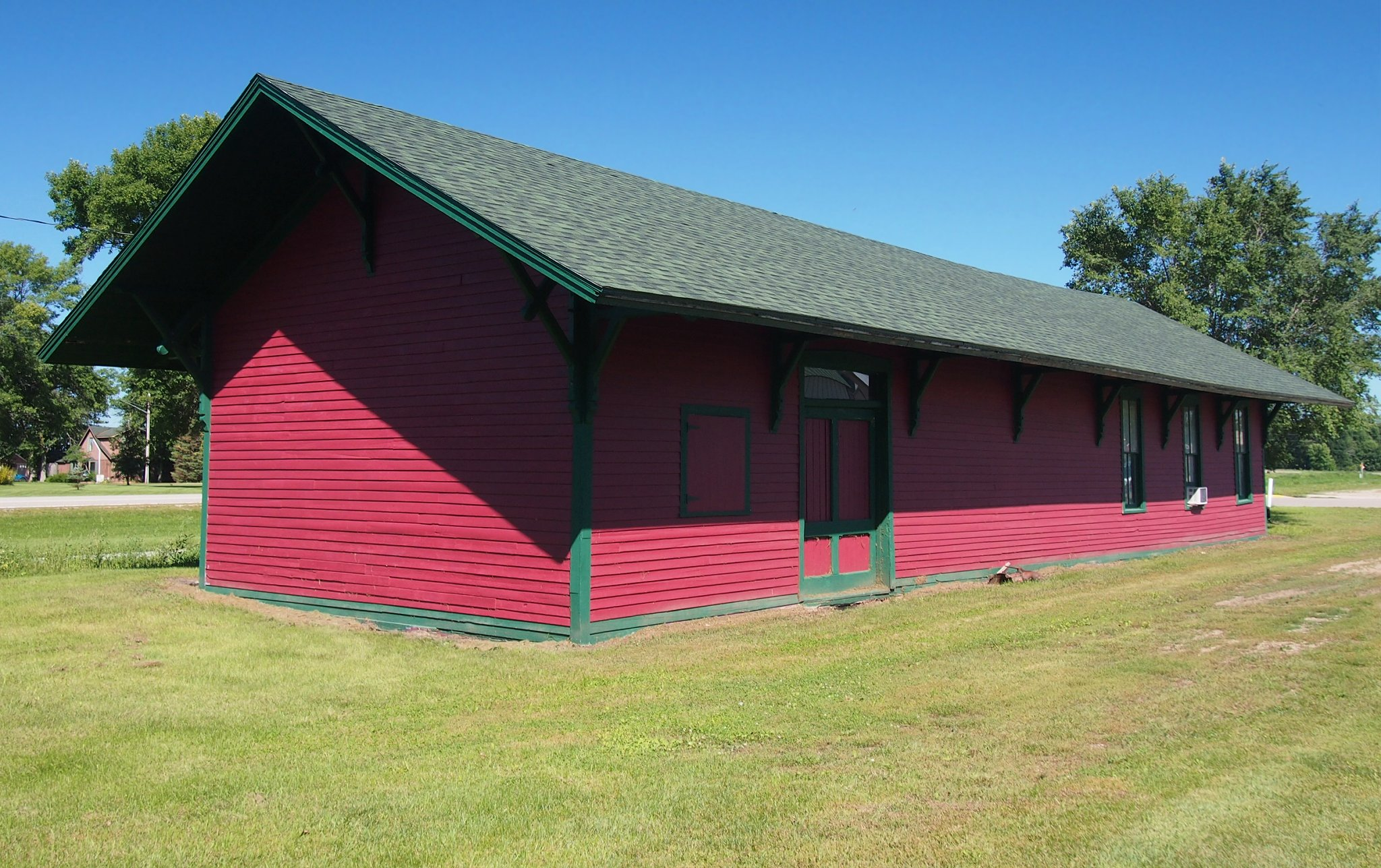 Northern Pacific Depot, Villard, Minnesota, USA. Viewed from the southwest.